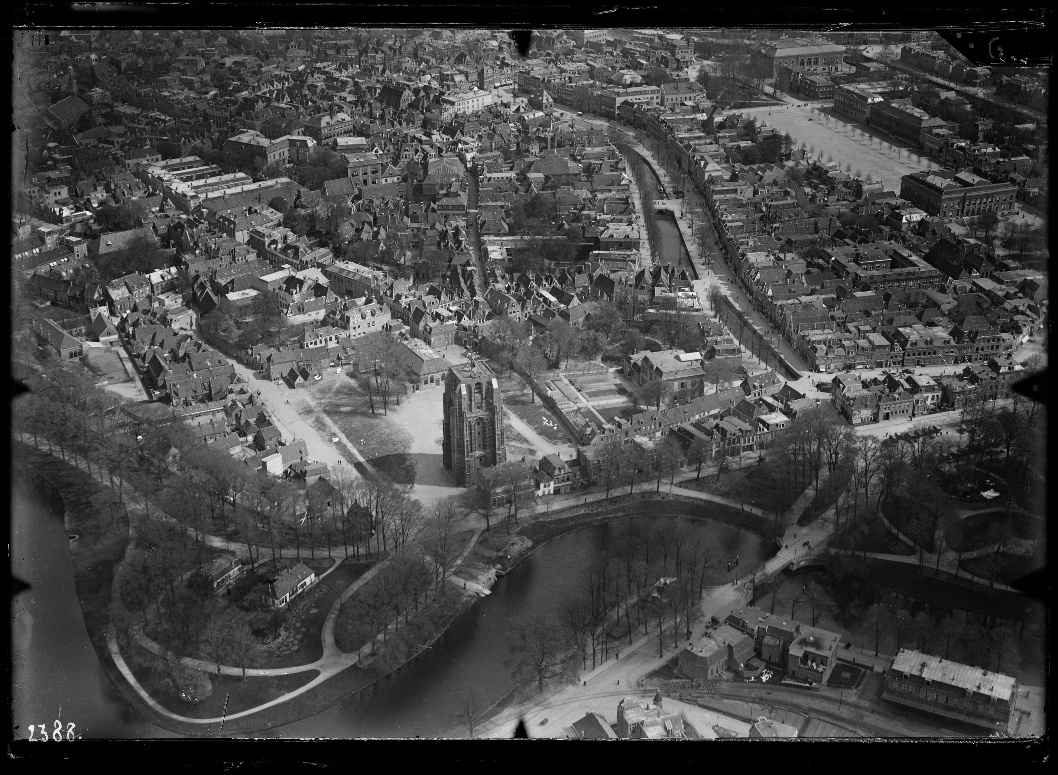 Aerial photograph of Leeuwarden, The Netherlands. Oldehove tower